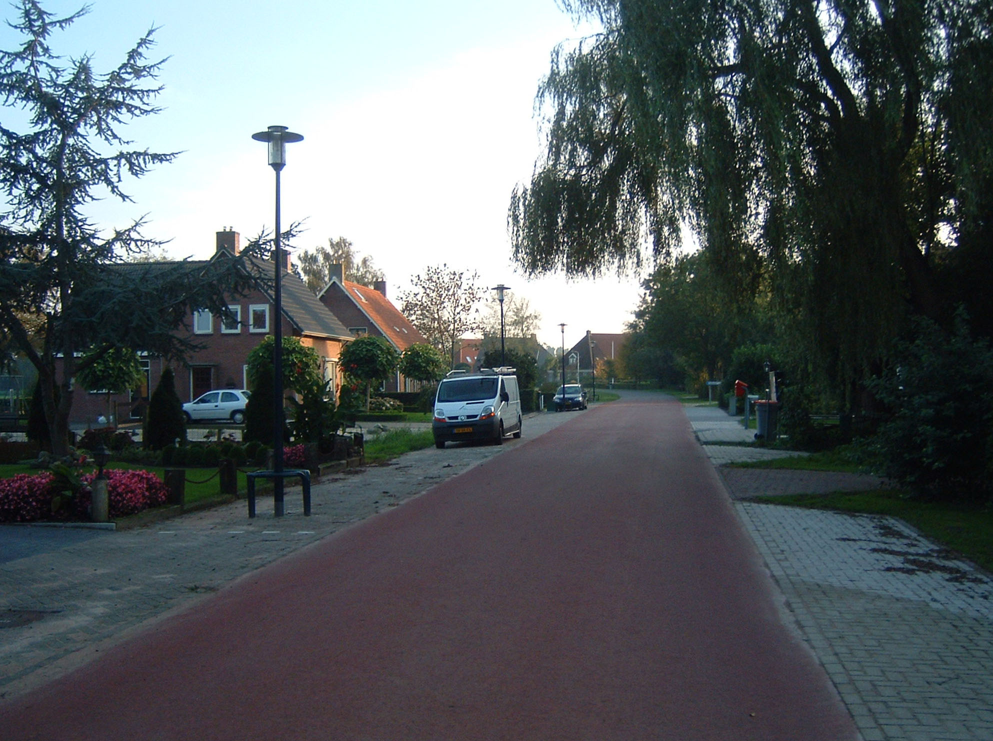 Own photograph of the Northern side of the village of Broek (Friesland).